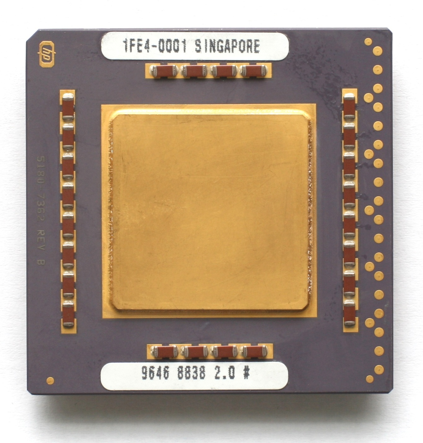 CPU HP PA-RISC 7300